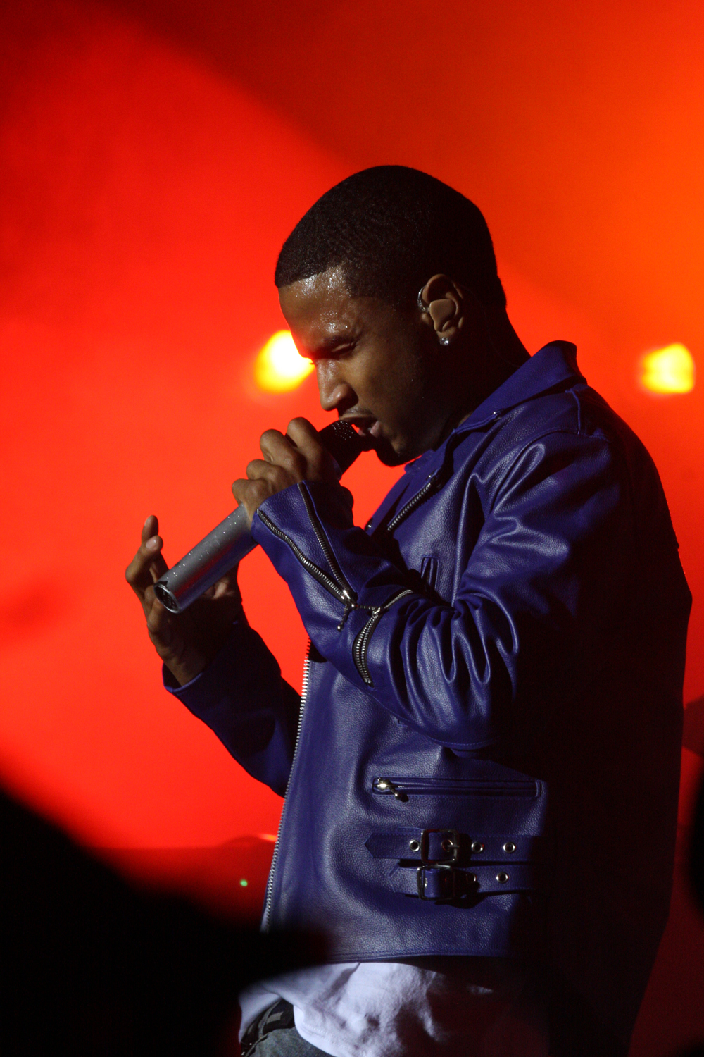 Trey Songz at Supafest 2012, at ANZ Stadium at Homebush, Sydney, Australia.